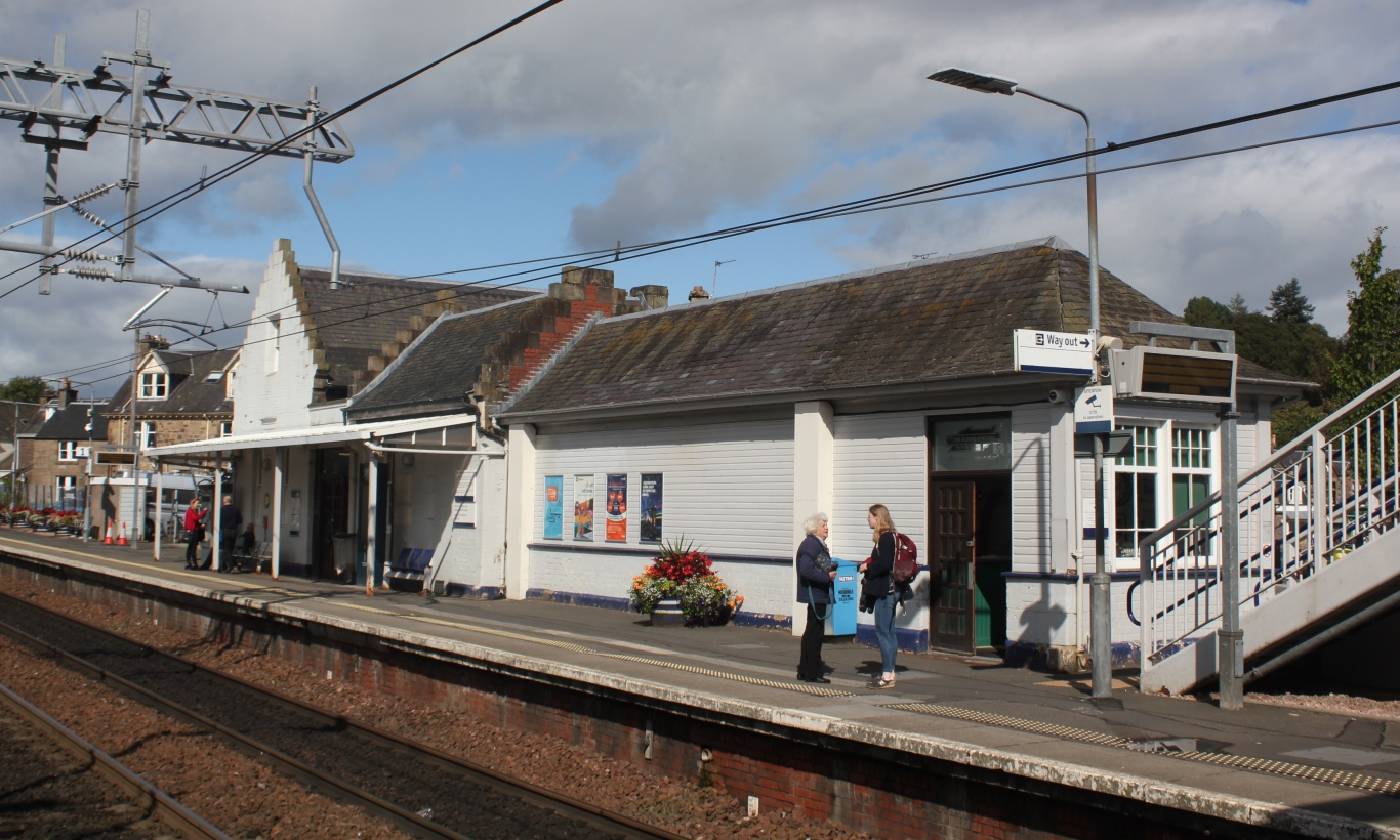 Platform 1 at Dunblane station is served by trains heading south to Stirling, Edinburgh and Glasgow. It is on the side of the station in the centre of this small city.